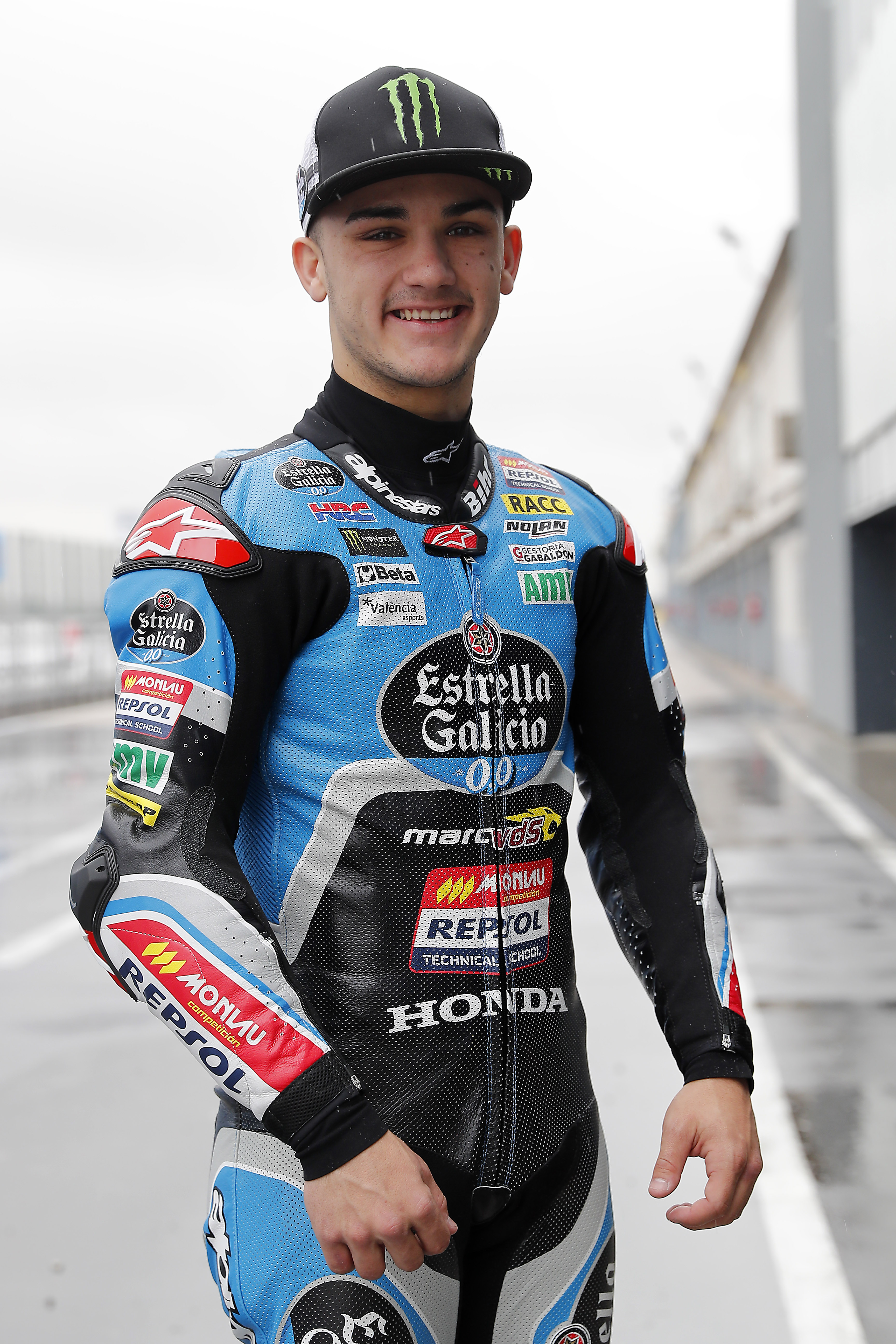 Arón Canet at presentation of Moto3 team in 2018